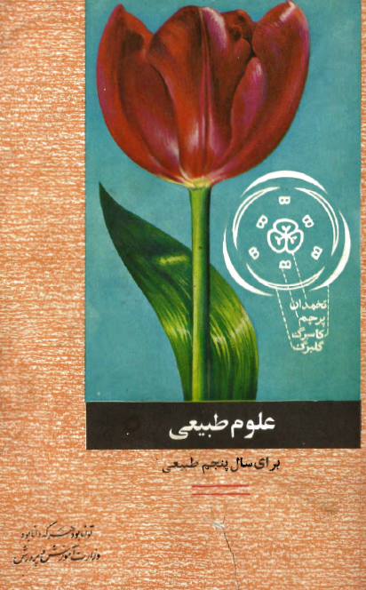 Natural Science Textbook cover- Ministry of Education- Iran-1972